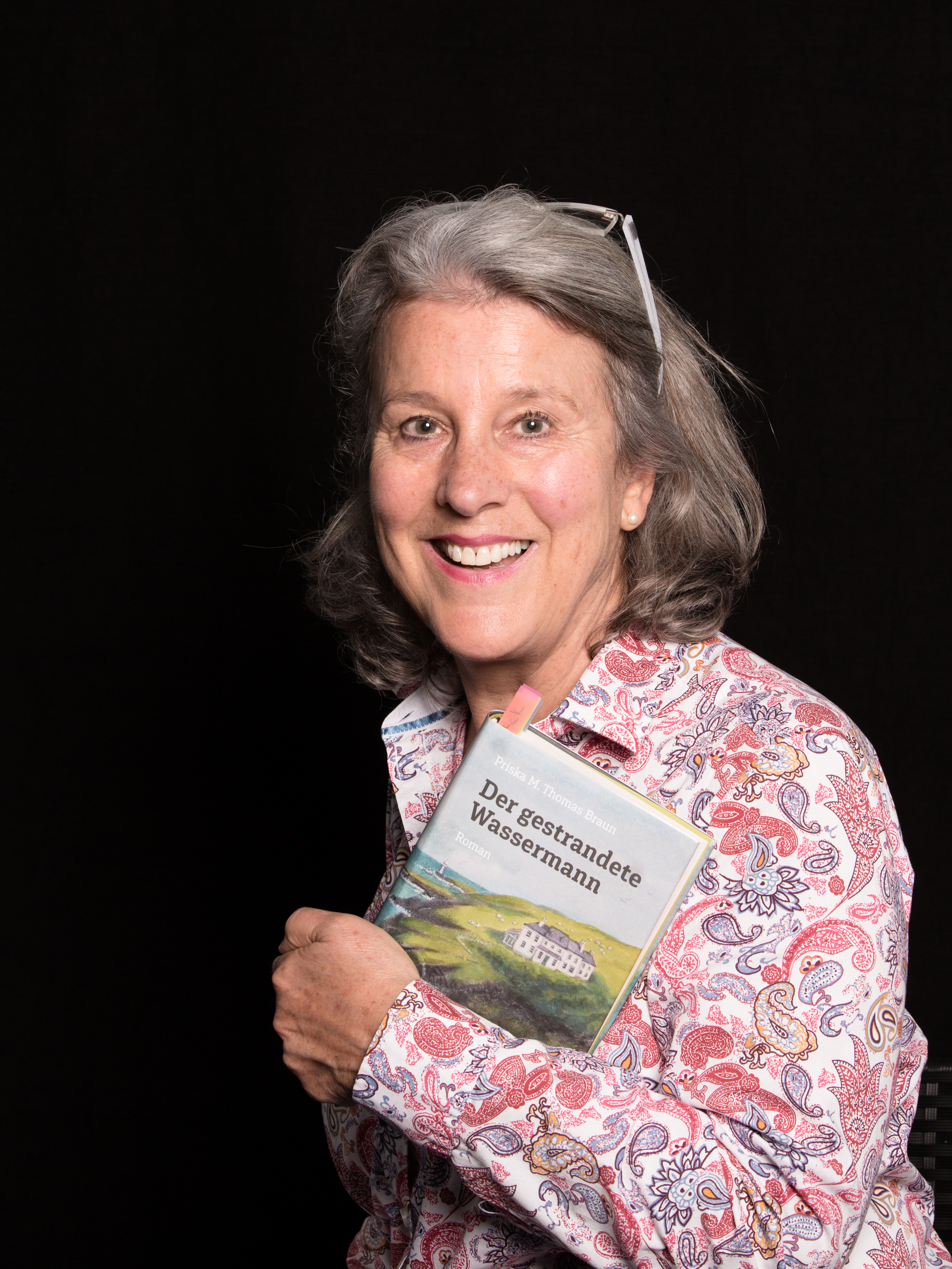 The journalist and author Priska M. Thomas Braun at the Frankfurt Book Fair 2017